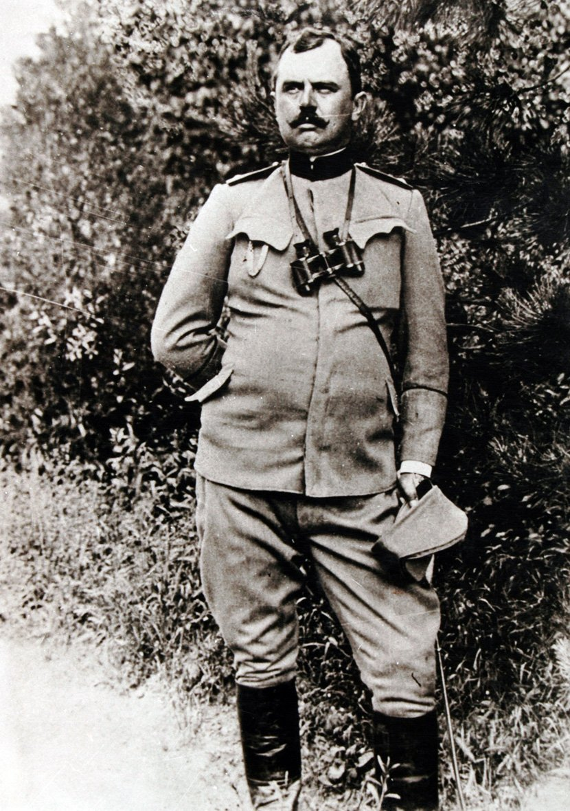 Major Dragutin Gavrilović, Royal Serbian Army